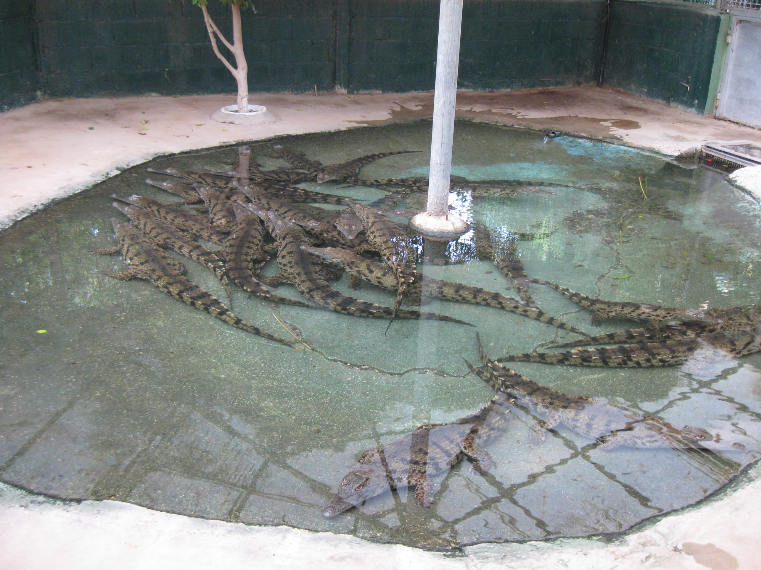 Wildlife and Plants of Israel